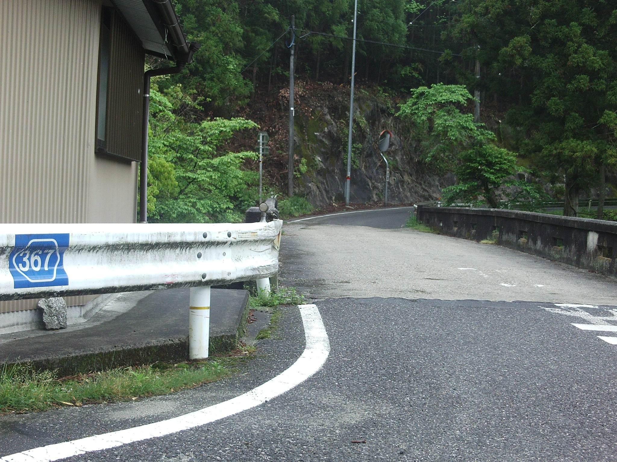 Aichi prefectural road No.367 in Kawamotecho, Toyota, Aichi.